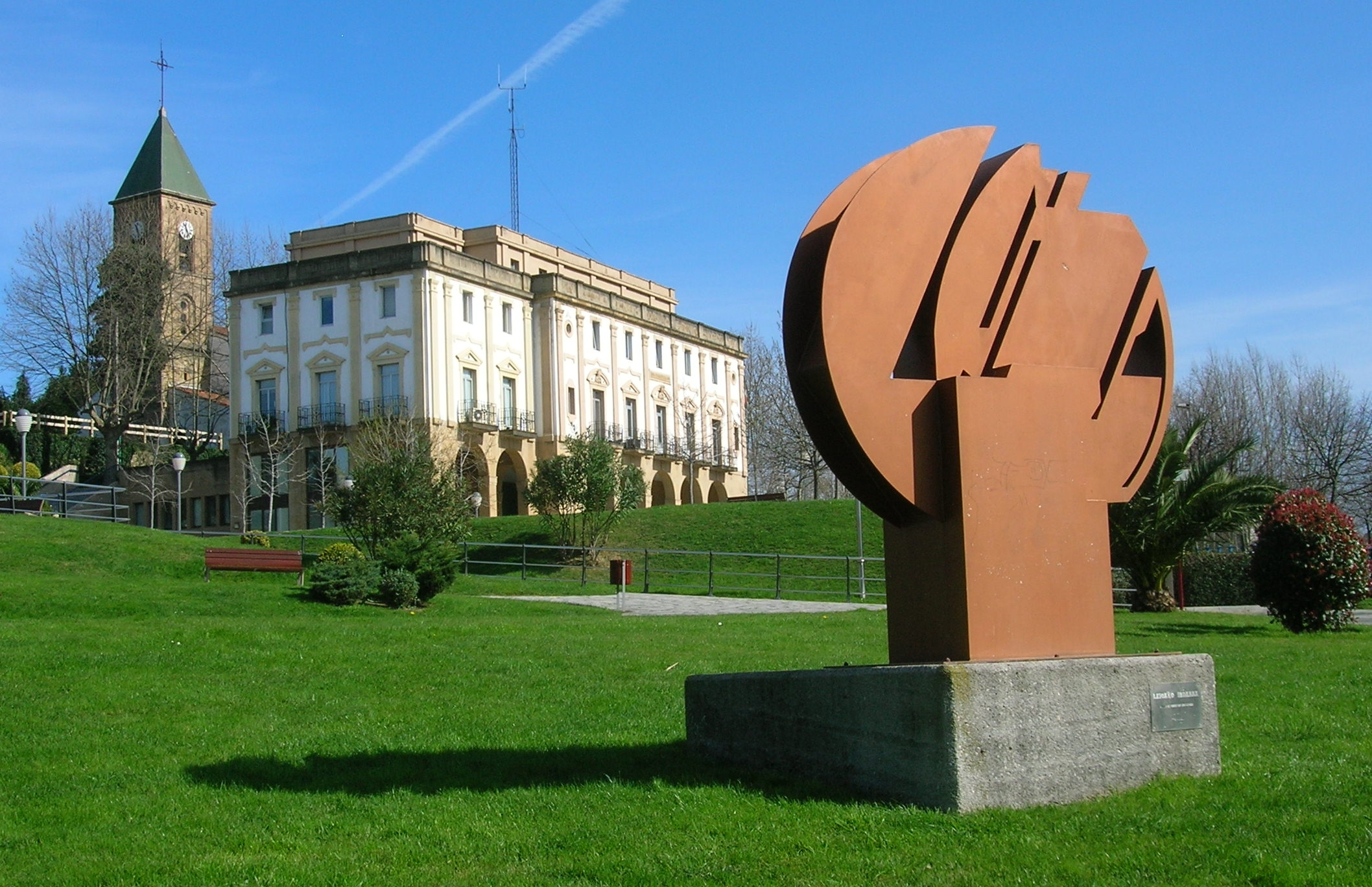 Saint John's church, XIX century town council and Leioako Indarra ("Strength of Leioa") sculpture by Nestor Basterretxea, Leioa.